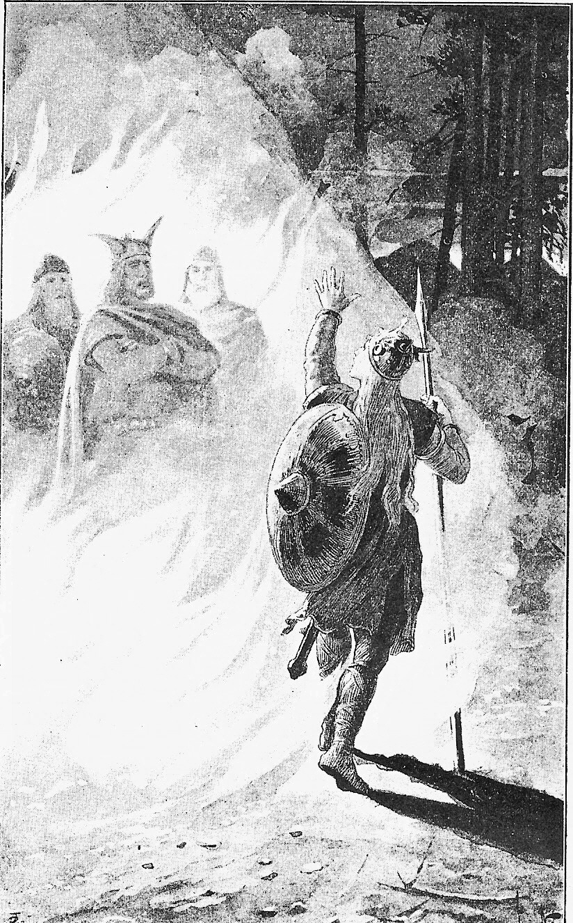 Hervor at Samsö